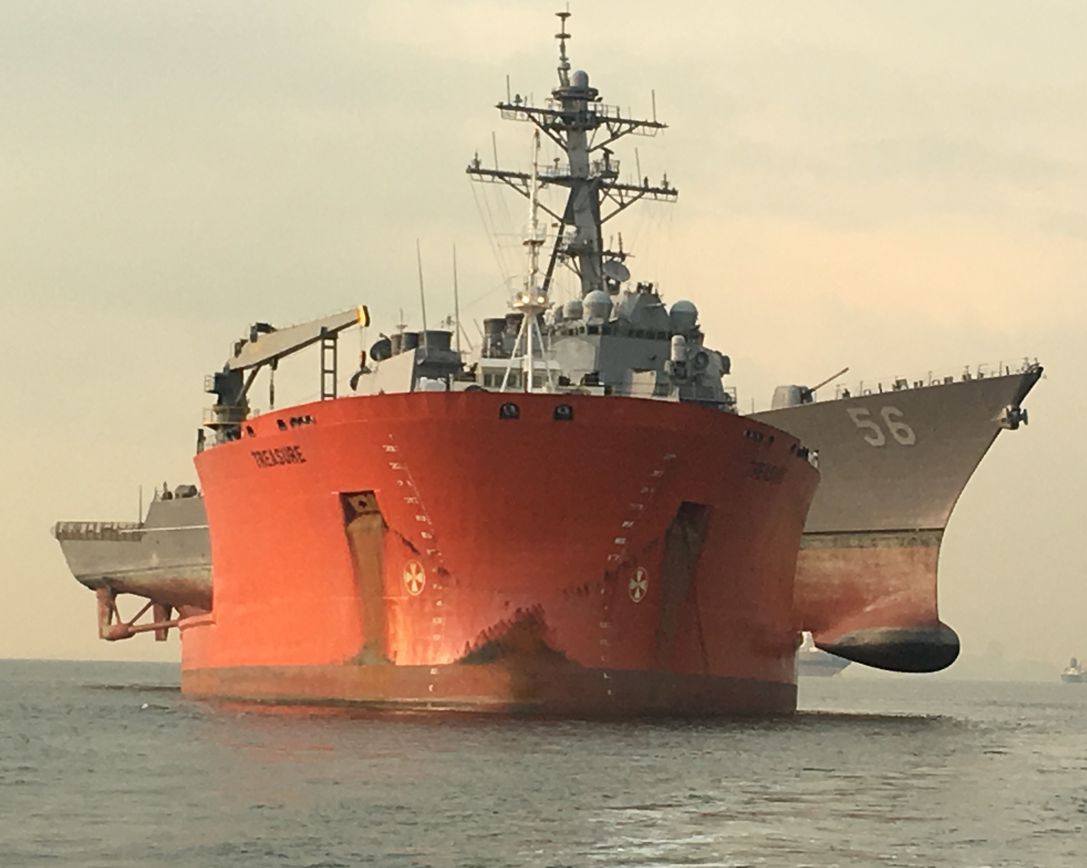 The U.S. Navy Arleigh Burke-class guided-missile destroyer USS John S. McCain (DDG-56) is loaded onto the heavy lift transport MV Treasure at Changi, Singapore, on 7 October 2017. MV Treasure transported the John S. McCain to Fleet Activities Yokosuka, Japan, for repairs.